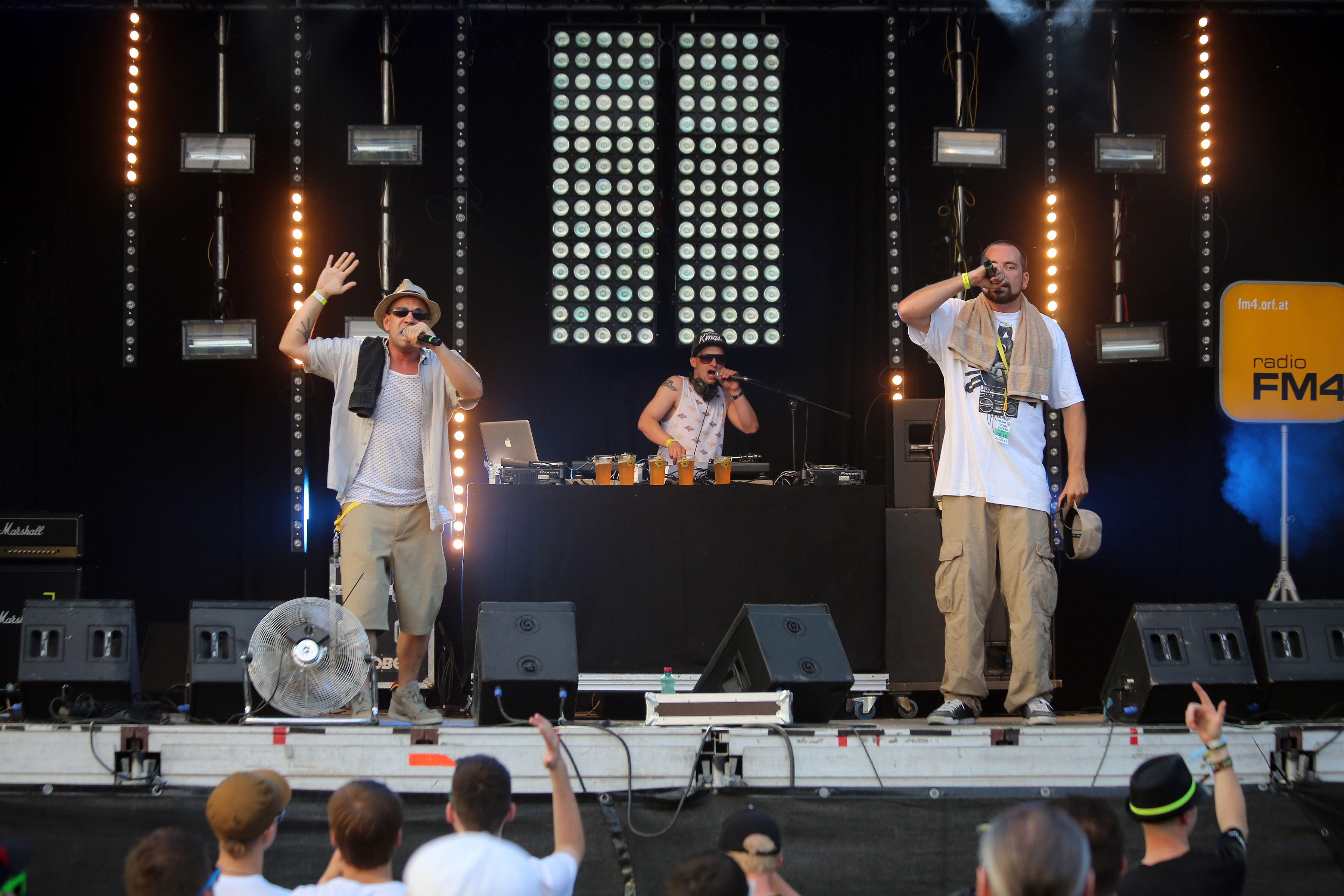 A.geh Wirklich? - Donauinselfest 2013 in Vienna, Austria